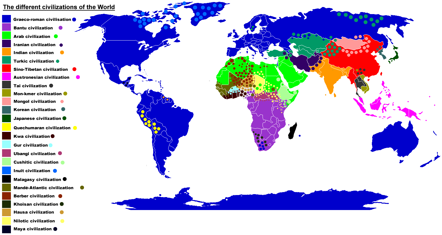 Translation of the French Image:Civilisations_actuelles.png.